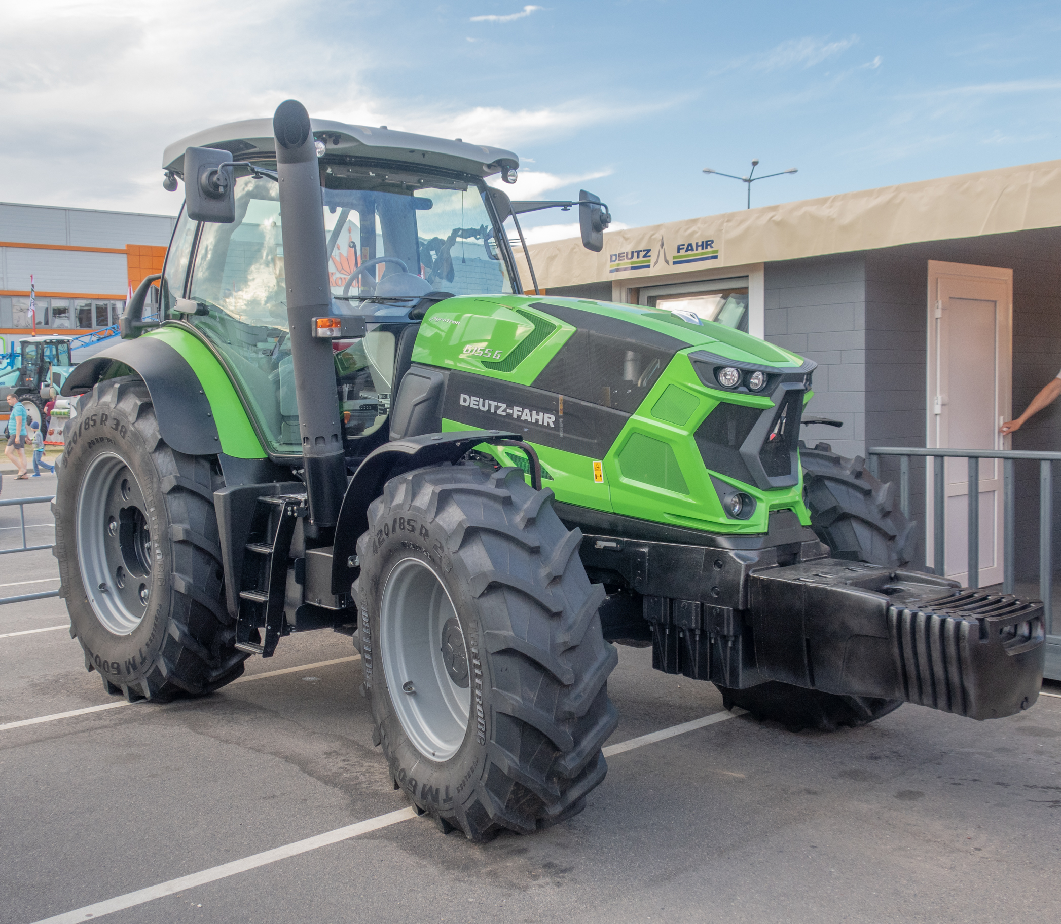 Deutz-Fahr vehicle. Photo taken at Belagro-2019 exhibition (Minsk district, Belarus)